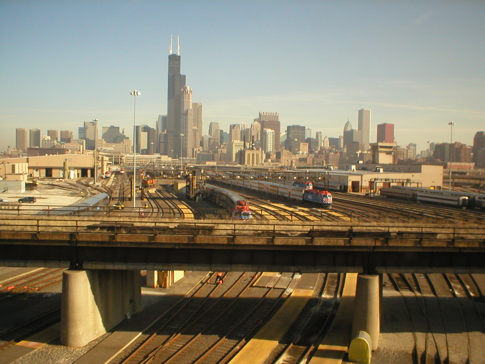 Sky-line photograph of Chicago, Illinois, facing north-east at 16th Street near South Canal Street.